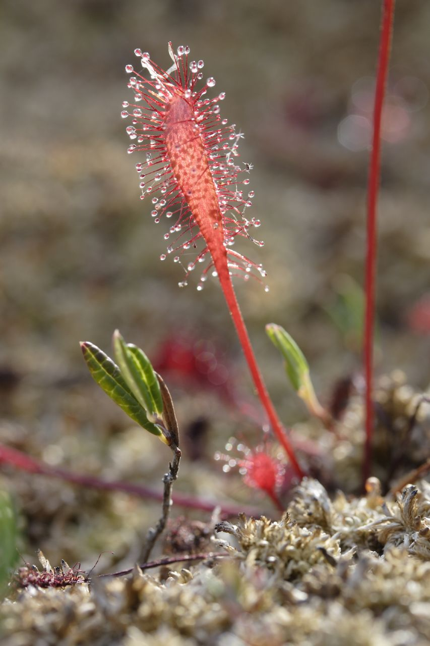 Great Sundew AKA English Sundew (Drosera anglica) Dysmorodrepanis 20:19, 27 May 2008 (UTC)